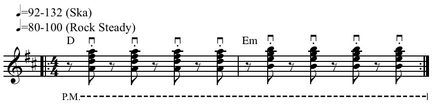 Ska/rocksteady rhythm. Created by Hyacinth (talk) 03:52, 3 November 2010 using Sibelius 5.